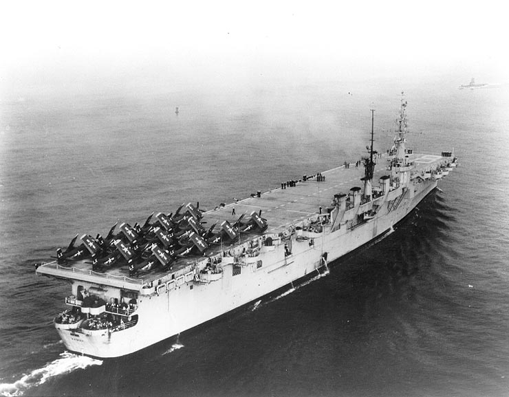 The U.S. Navy light aircraft carrier USS Saipan (CVL-48) underway circa the mid-1950s, with eleven Douglas AD Skyraider of Marine Attack Squadron 324 (VMA-324) "Vagabonds" planes parked on her flight deck, aft. Note the submarine approaching, in the right distance.